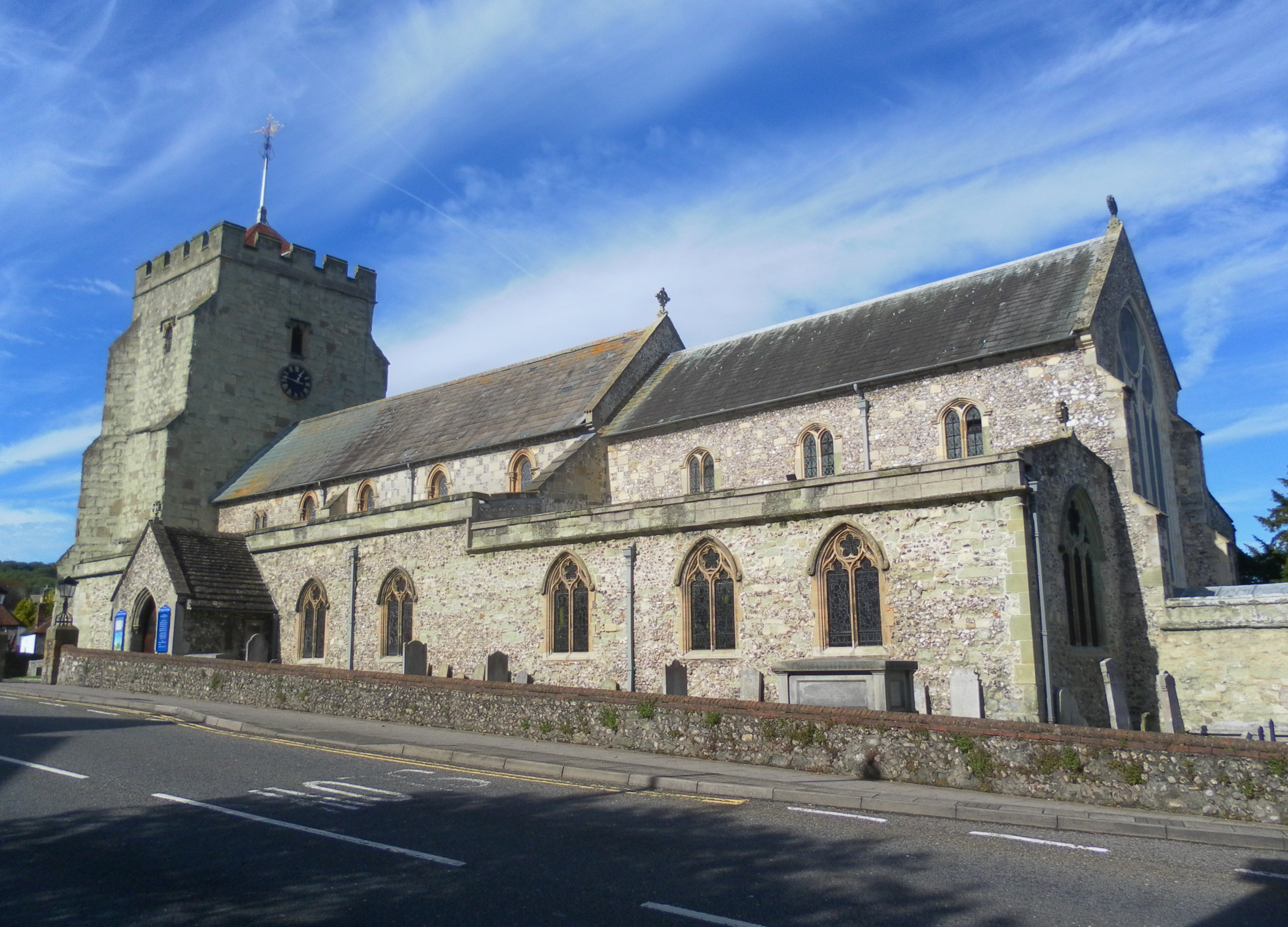 St Mary the Virgin parish church, Church Street, Old Town, Eastbourne, East Sussex, England, seen from the southeast